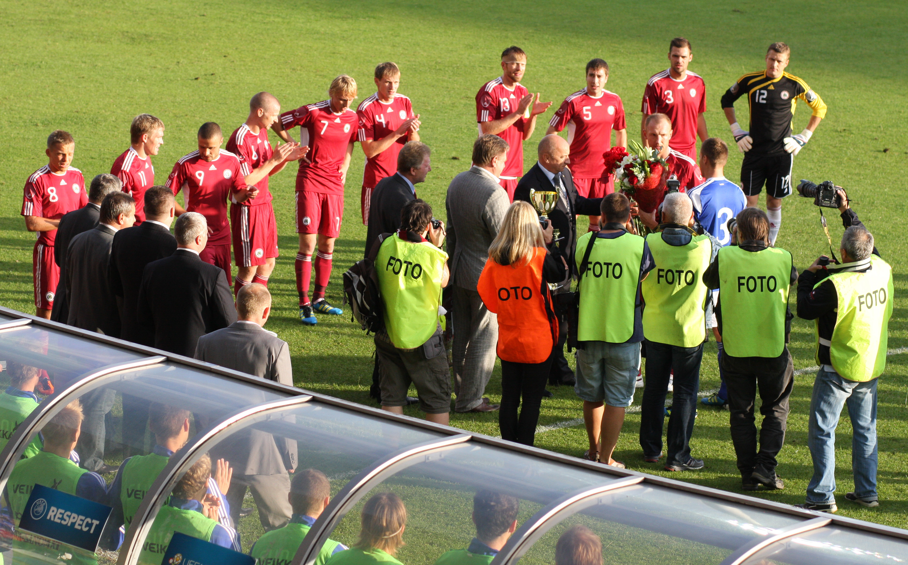 Latvian football defender Igors Stepanovs is celebrated as he plays his 100th match for the National team of Latvia